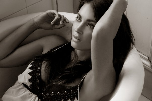 Tanit Phoenix, international model and actress